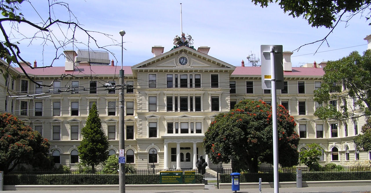 The largest timber building in the Southern hemisphere, the former government buildings now the Victoria University of Wellington Faculty of Law. Classical ascending order with rustication effect on the ground floor, all constructed in wood. The chimneys now lightweight fibreglass copies of the original to reduce earthquake risks.